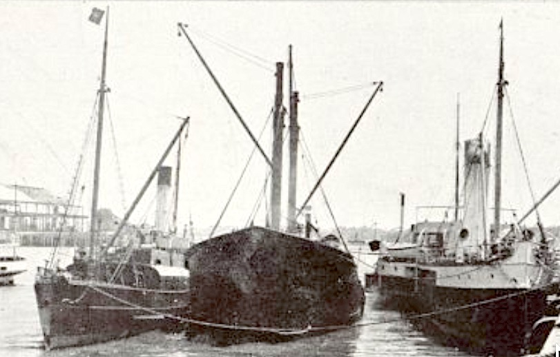 Rotomahana (left) in 1913 coaling at Auckland